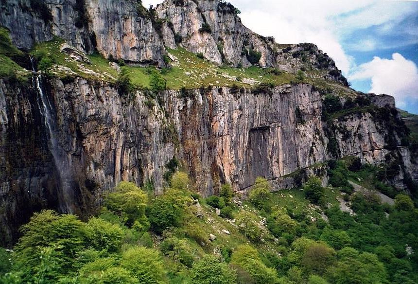 Source of the river Ason in the Natural Park Hillocks of the Ason (Cantabria, Spain). Resurgent stream in a karst region. The water falls by a cascade of more than 50 meters of height.